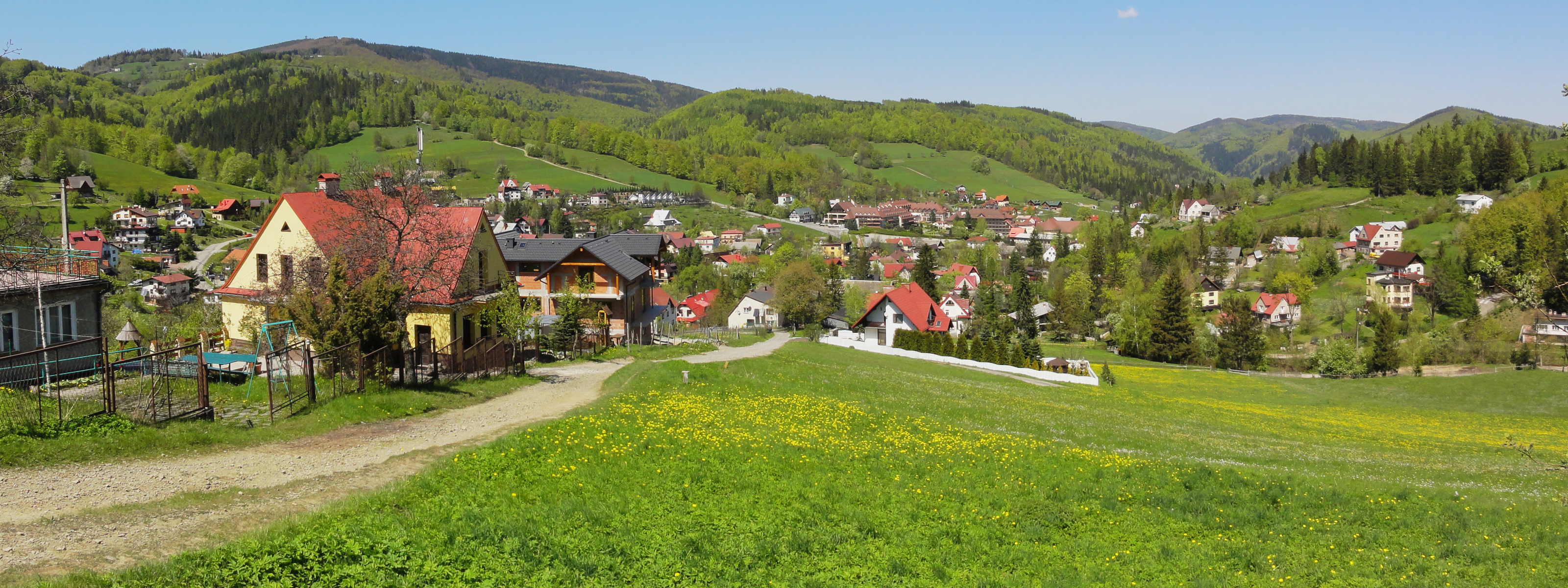 General view of Wisła-Jawornik